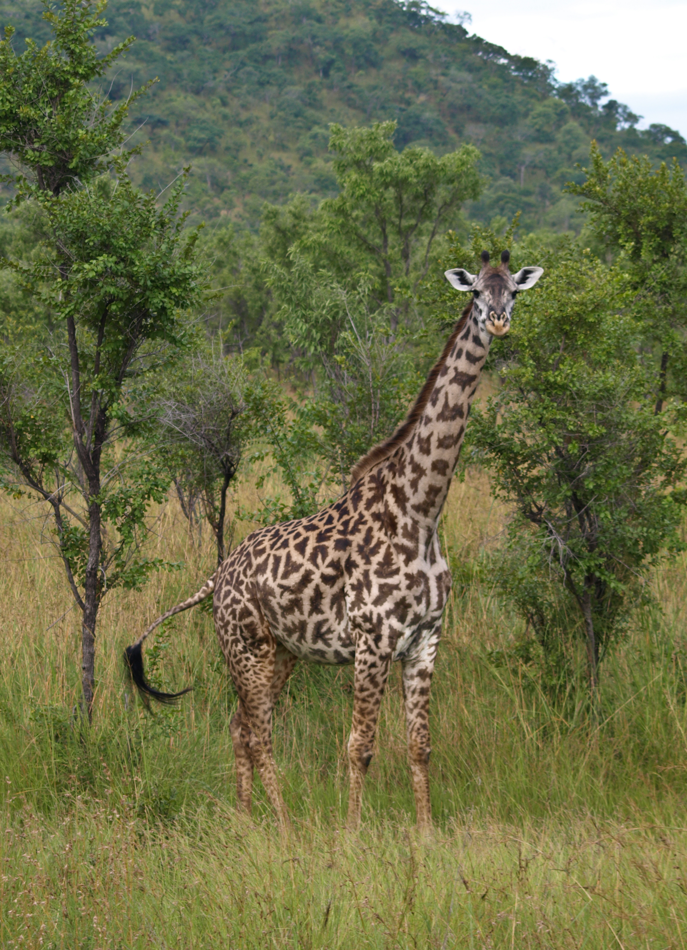 Giraffa camelopardalis in Mikumi National Park, Tanzania Believed to be intermediate species between Somali & Masai Giraffe